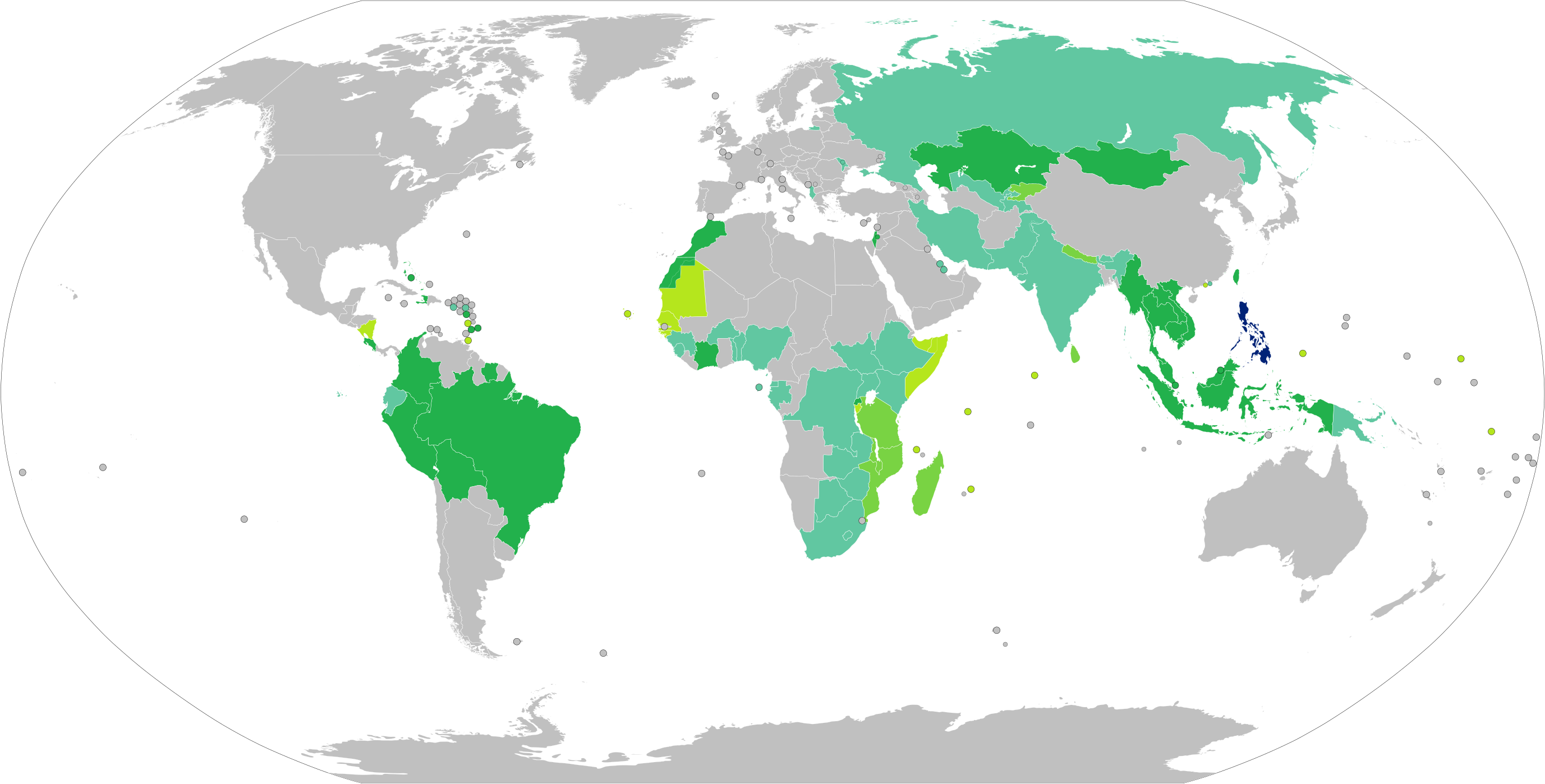 Visa requirements for Filipino citizens. Philippines Visa free access Visa on arrival eVisa Visa available both on arrival or online Visa required